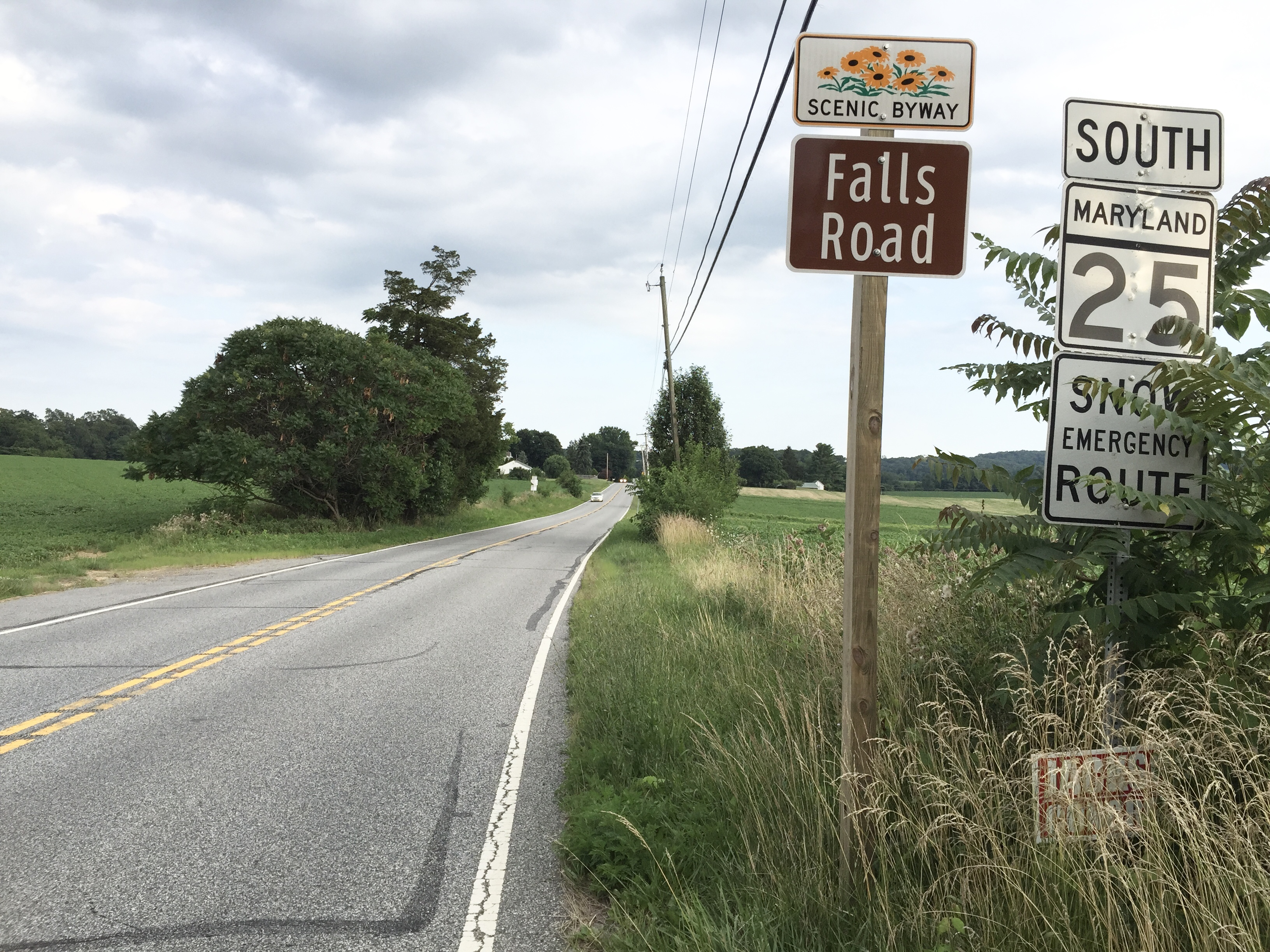 View south along Maryland State Route 25 (Falls Road) just south of Maryland State Route 137 (Mount Carmel Road) in Whitehouse, Baltimore County, Maryland